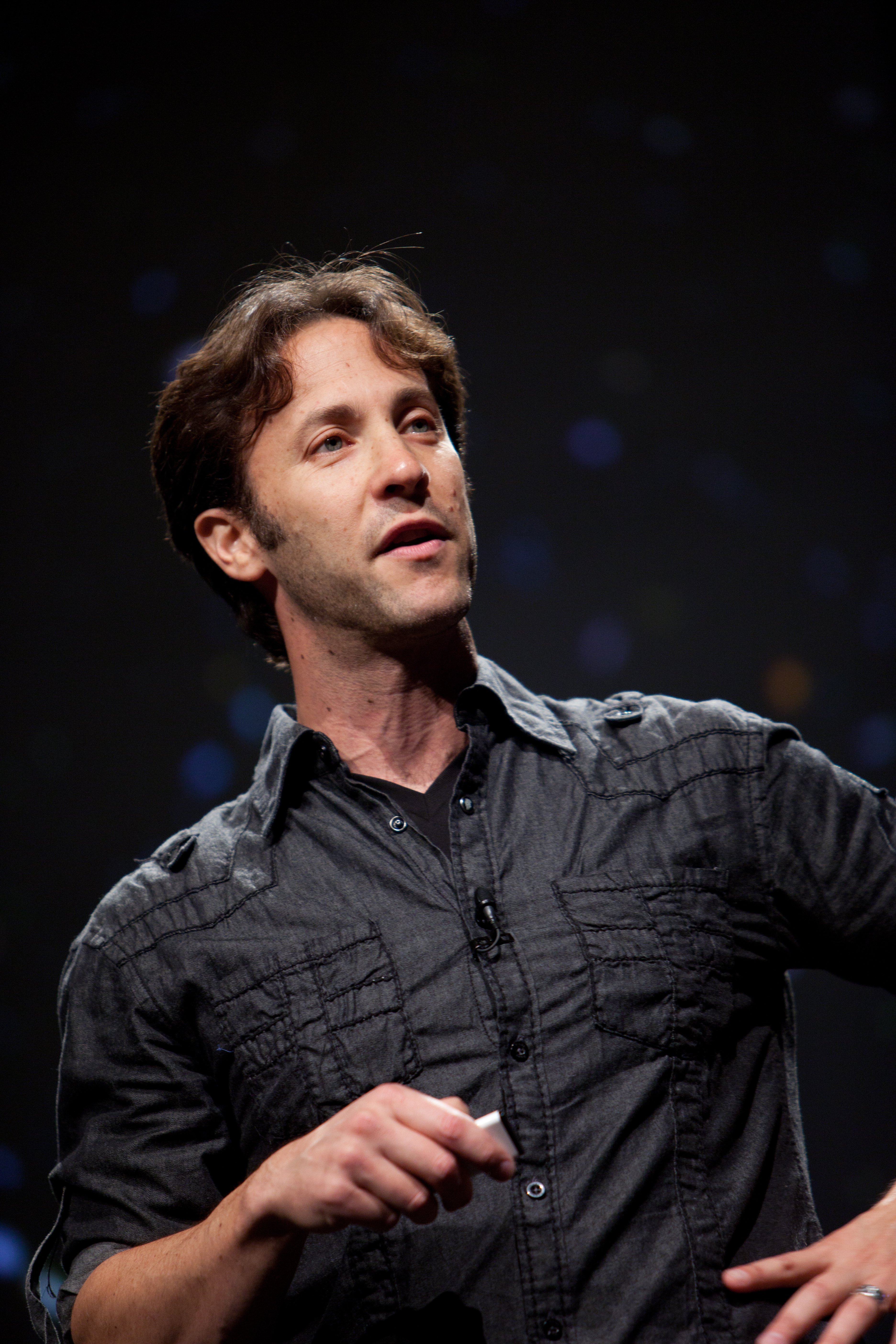 David Eagleman - PopTech 2010 - Camden, Maine